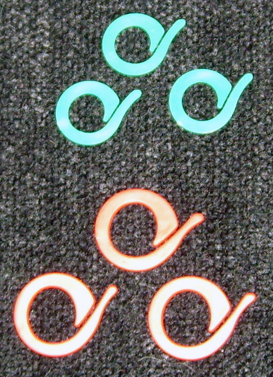 Stich markers for crochet